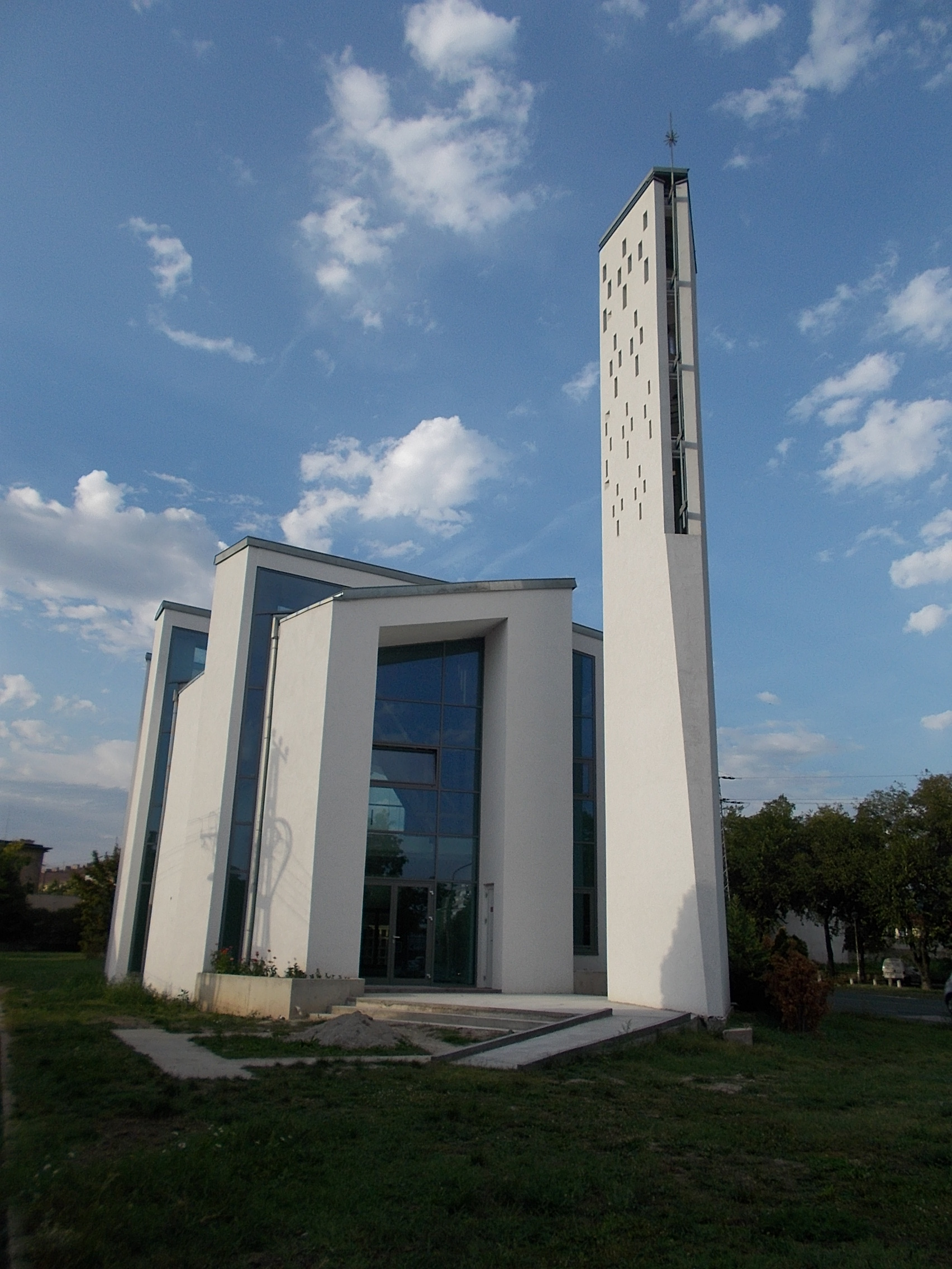 Reformed Church of Downtown. - Vác, Pest County, Hungary